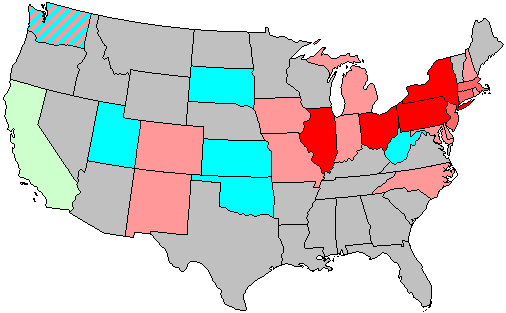 Summary of party change of U.S. house seats in the 1914 House election. Stripes indicate a tie between the gains of two or more parties. Legend: 6+ Democratic seat pickup 3-5 Democratic seat pickup 1-2 Democratic seat pickup 1-2 Republican seat pickup 3-5 Republican seat pickup 6+ Republican seat pickup 1-2 Progressive seat pickup 1-2 Farmer-Labor seat pickup 1-2 Socialist seat pickup Note: years ending in 2 may have inconsistent results due to redistricting.